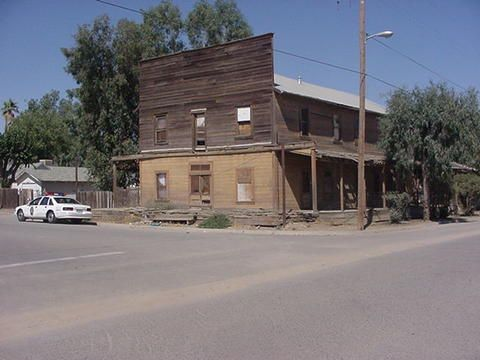 View of the Central Hotel in Huron at 16808 10th Street in 2001 looking northwest.